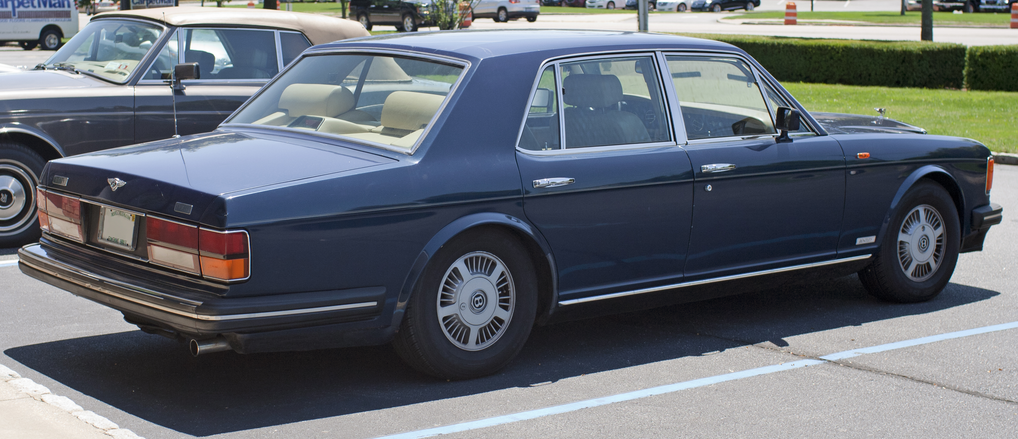 1989 Bentley Eight - without airbags!